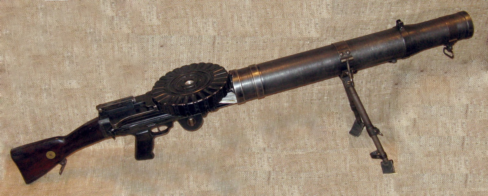 Lewis gun displayed in Elgin Military Museum in St. Thomas, Ontario